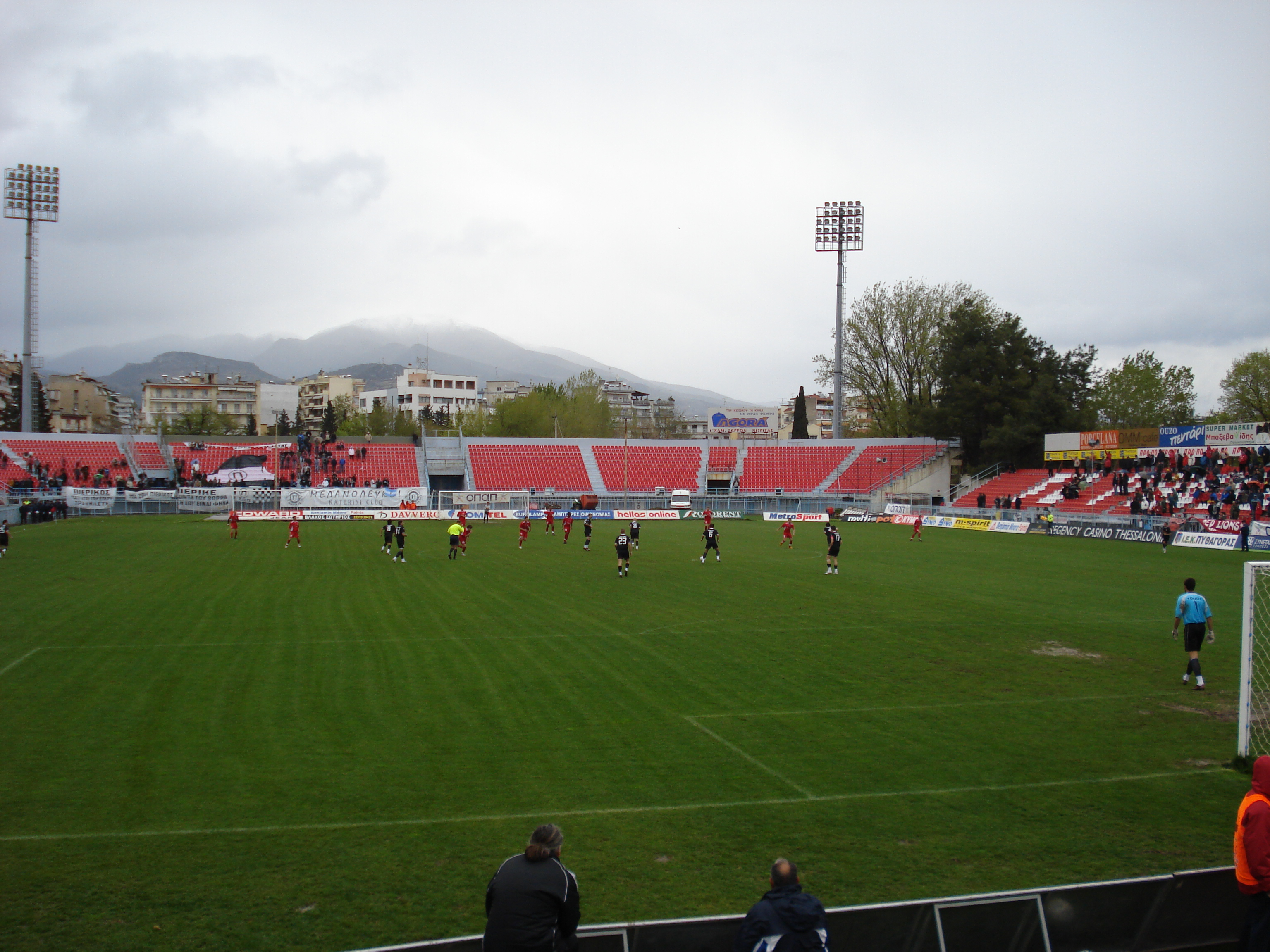 Panserraikos FC (red) against Pierikos FC (black) in the Greek second Division.